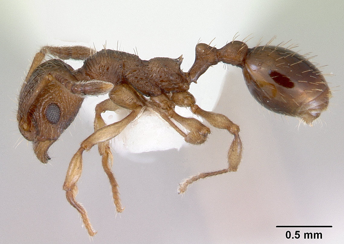 Profile view of ant Huberia brounii specimen casent0172294.